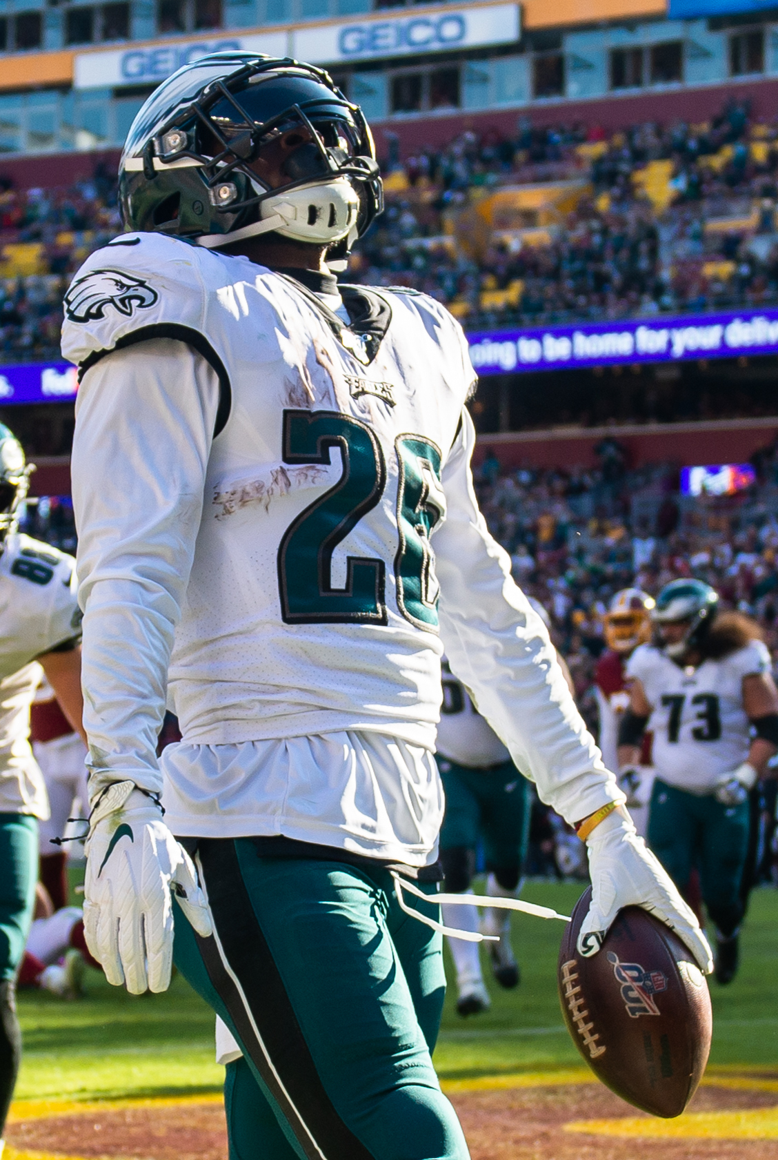 In 2019